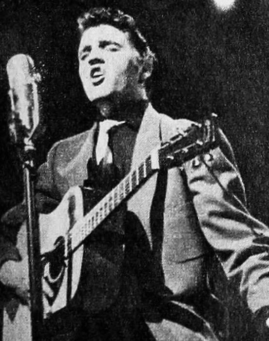 Elvis Presley live with Scotty Moore and Bill Black